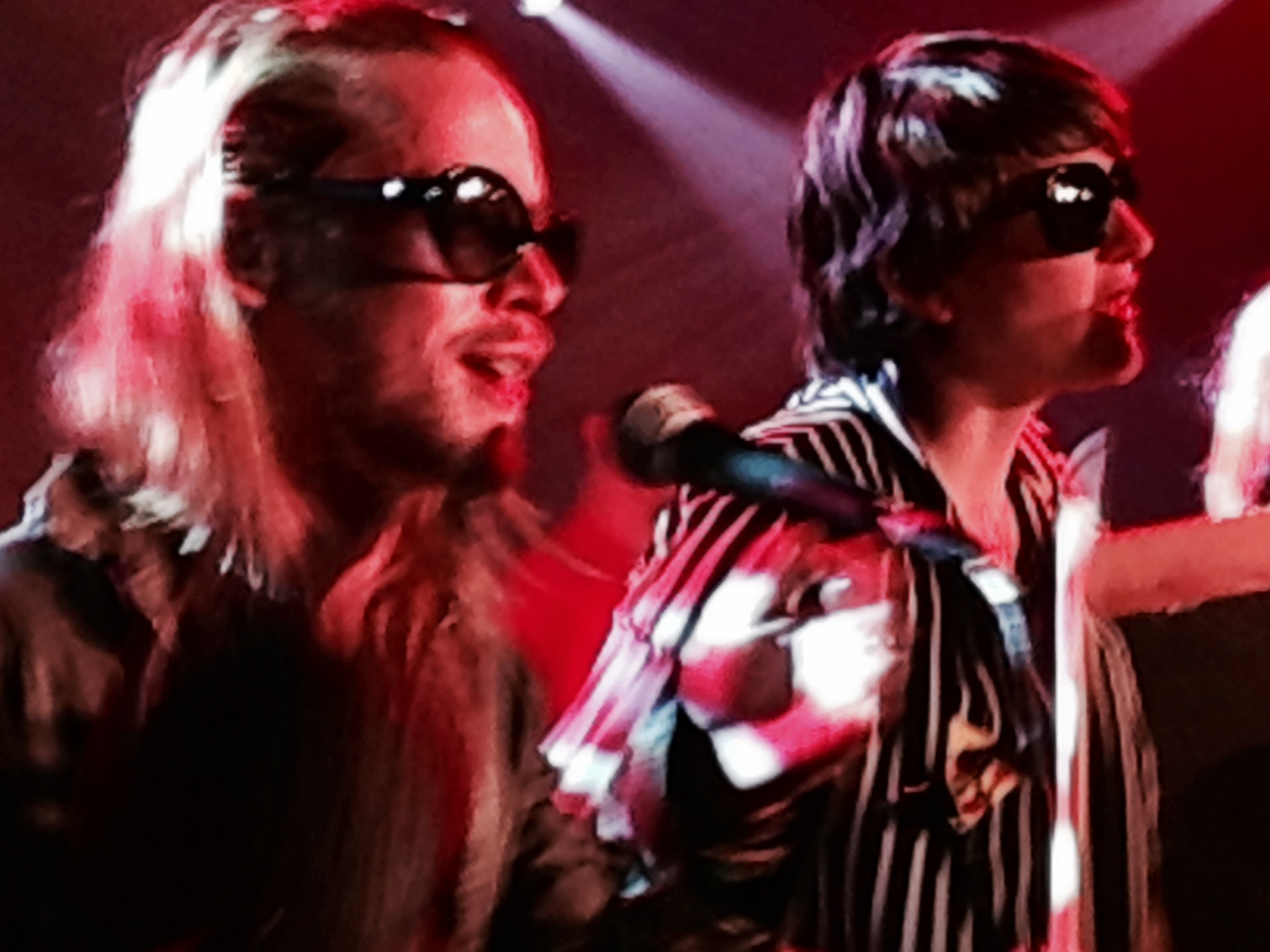 The comedy band Pizza Underground, featuring actor Macaulay Culkin, performing at the Double Door in Chicago on 11/29/2014